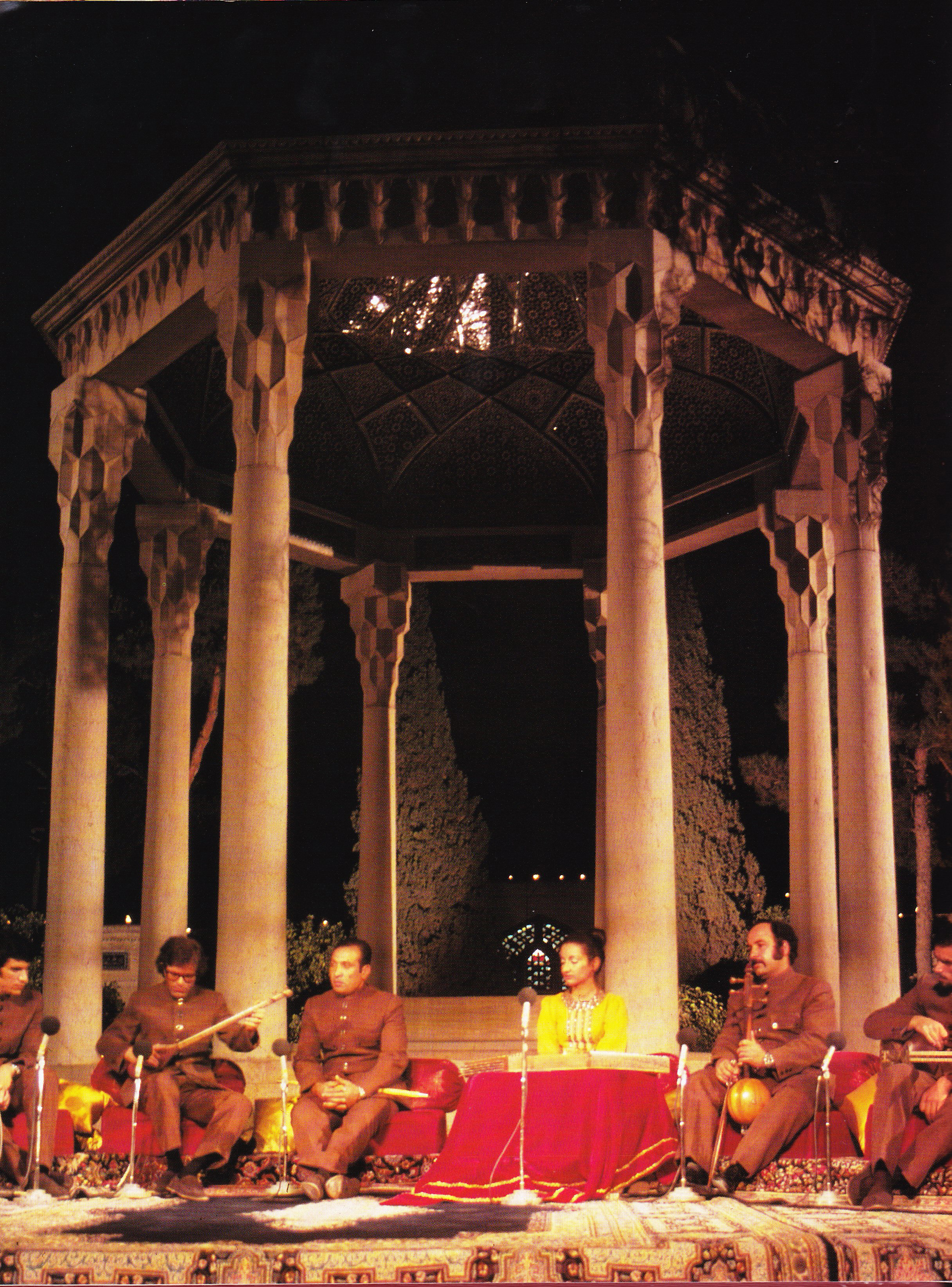 Indian group playing at Shiraz art festival, Shiraz, Iran